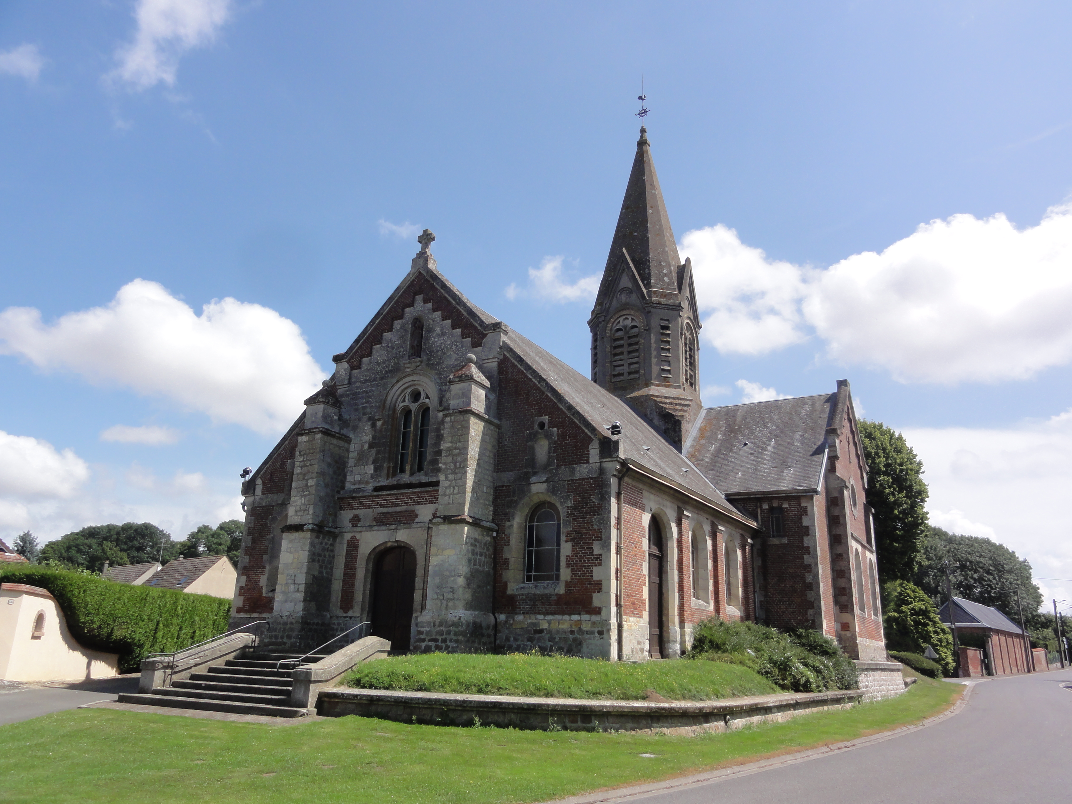 Villers-Saint-Christophe (Aisne) église